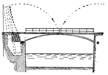 Bascule bridge. Dotted lines show the position of the leafs when the bridge is open for sea traffic.